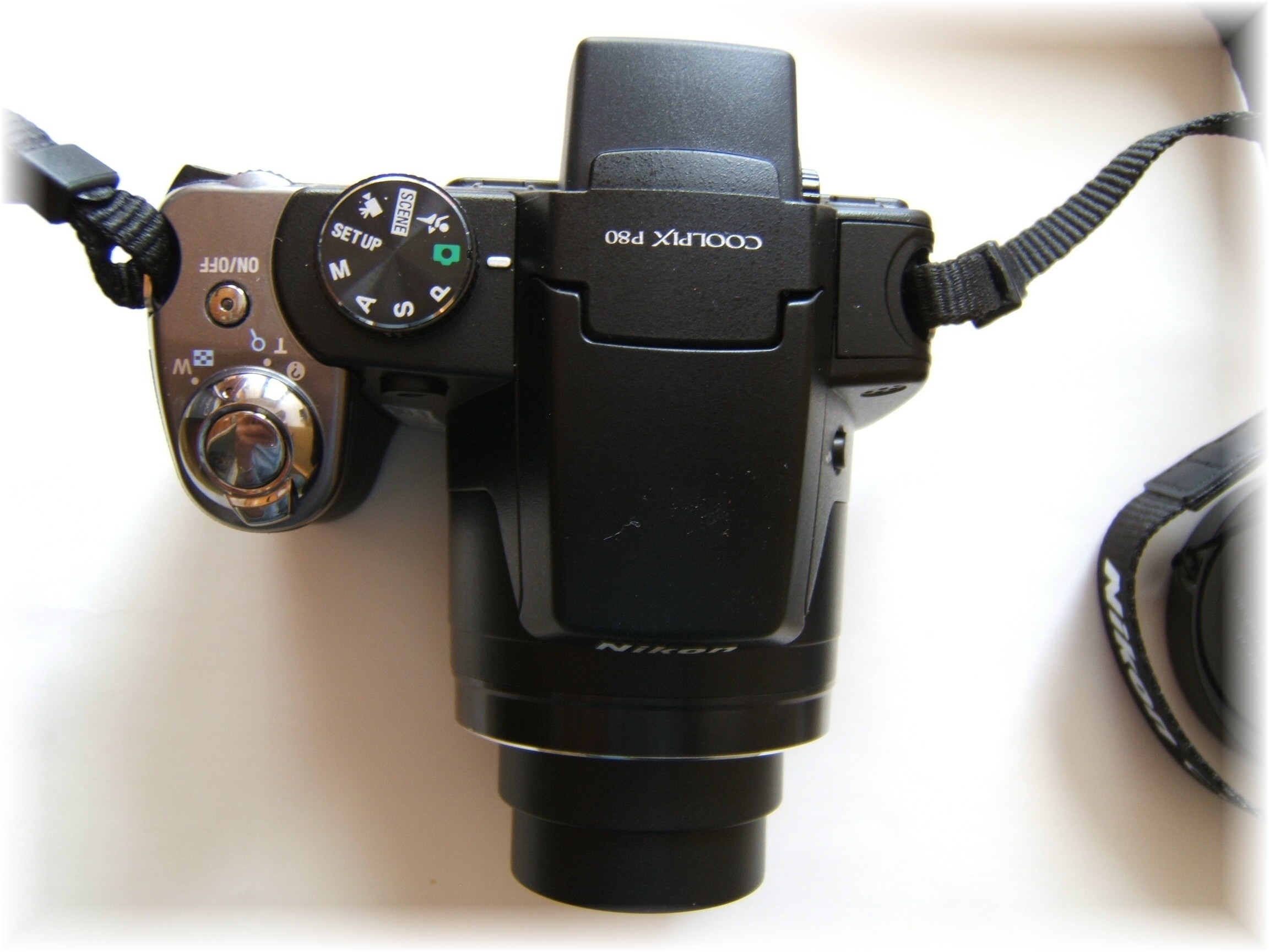 Nikon Coolpix P80 top